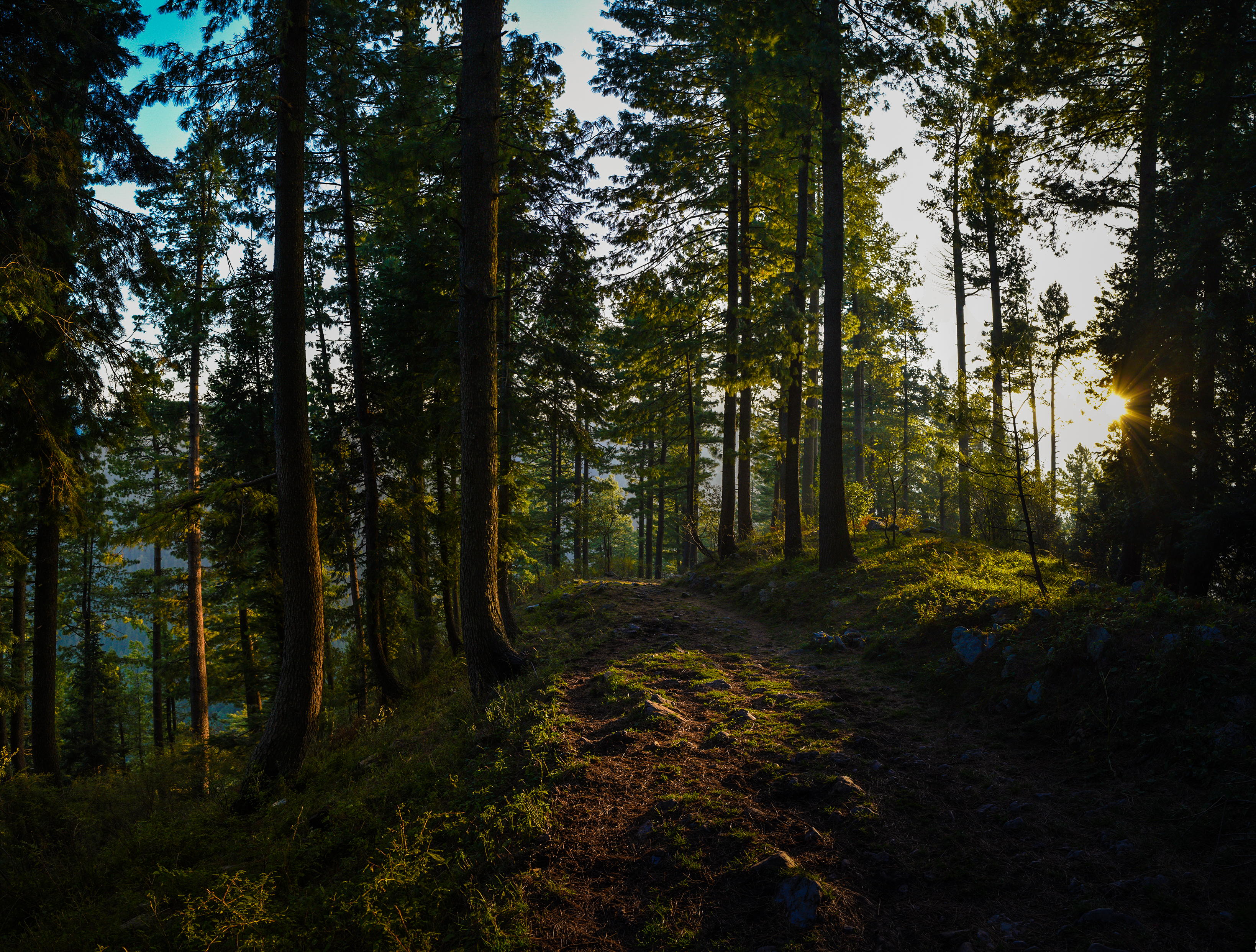 Picture of Miranjani Track during sunset. Shot taken while trekking down from the Miranjani Peak, Abbotabad.